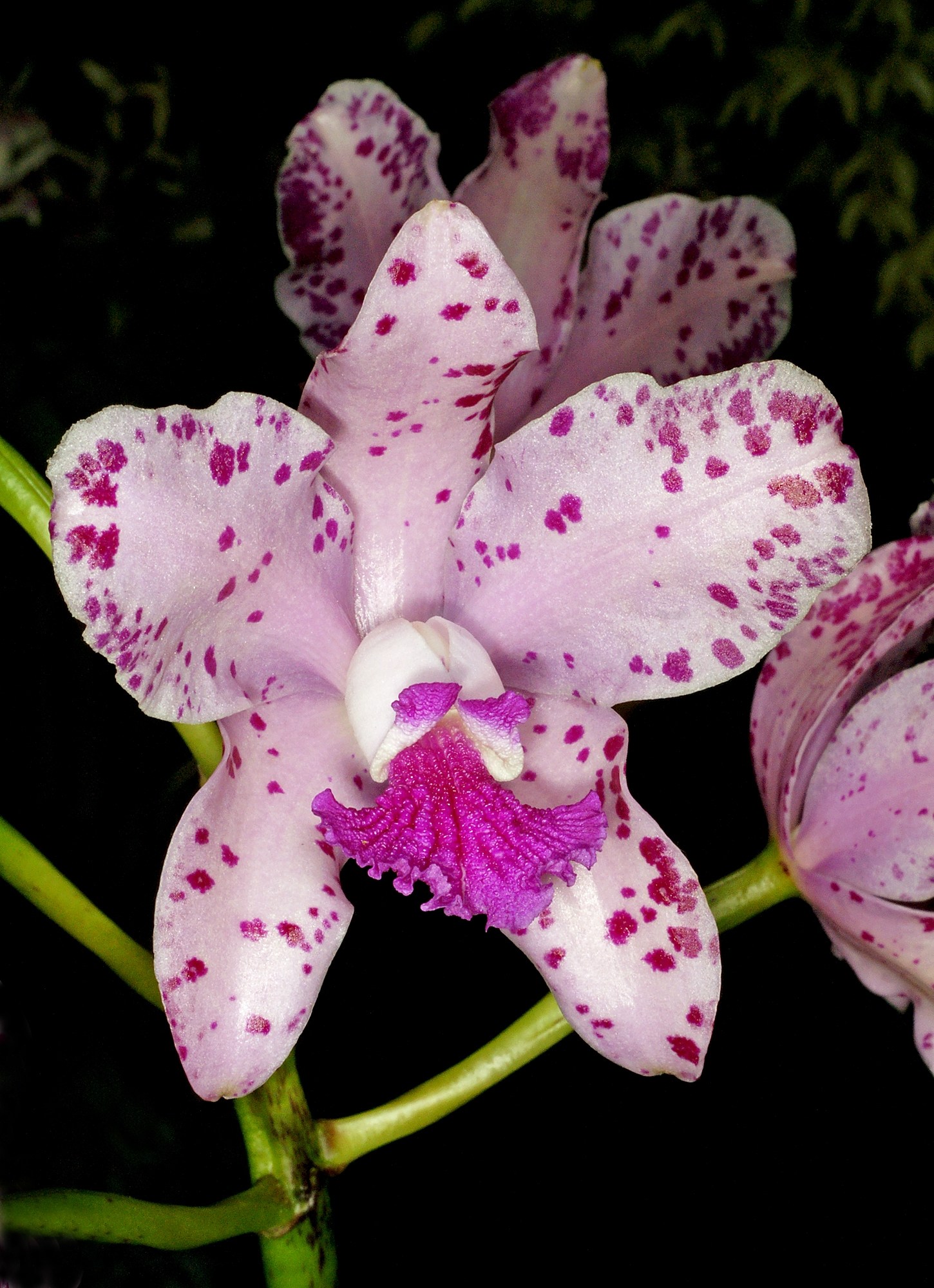 Cattleya amethystoglossa